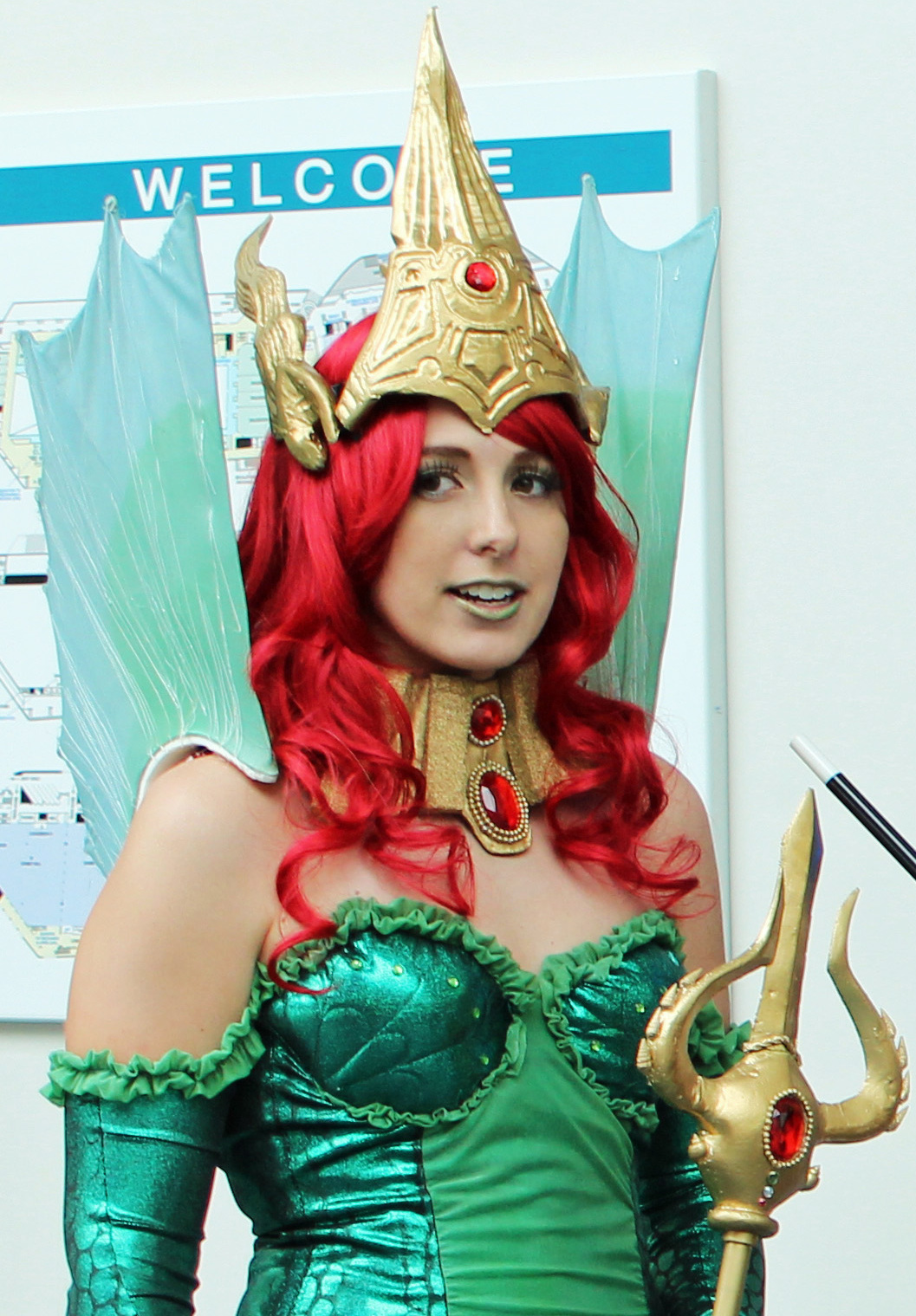 Cosplayers as Ame-Comi versions of Mera, Zatanna, Robin (Anti Ai-Chan), Duela Dent (WindoftheStars) and Batman at San Diego Comic-Con 2012.